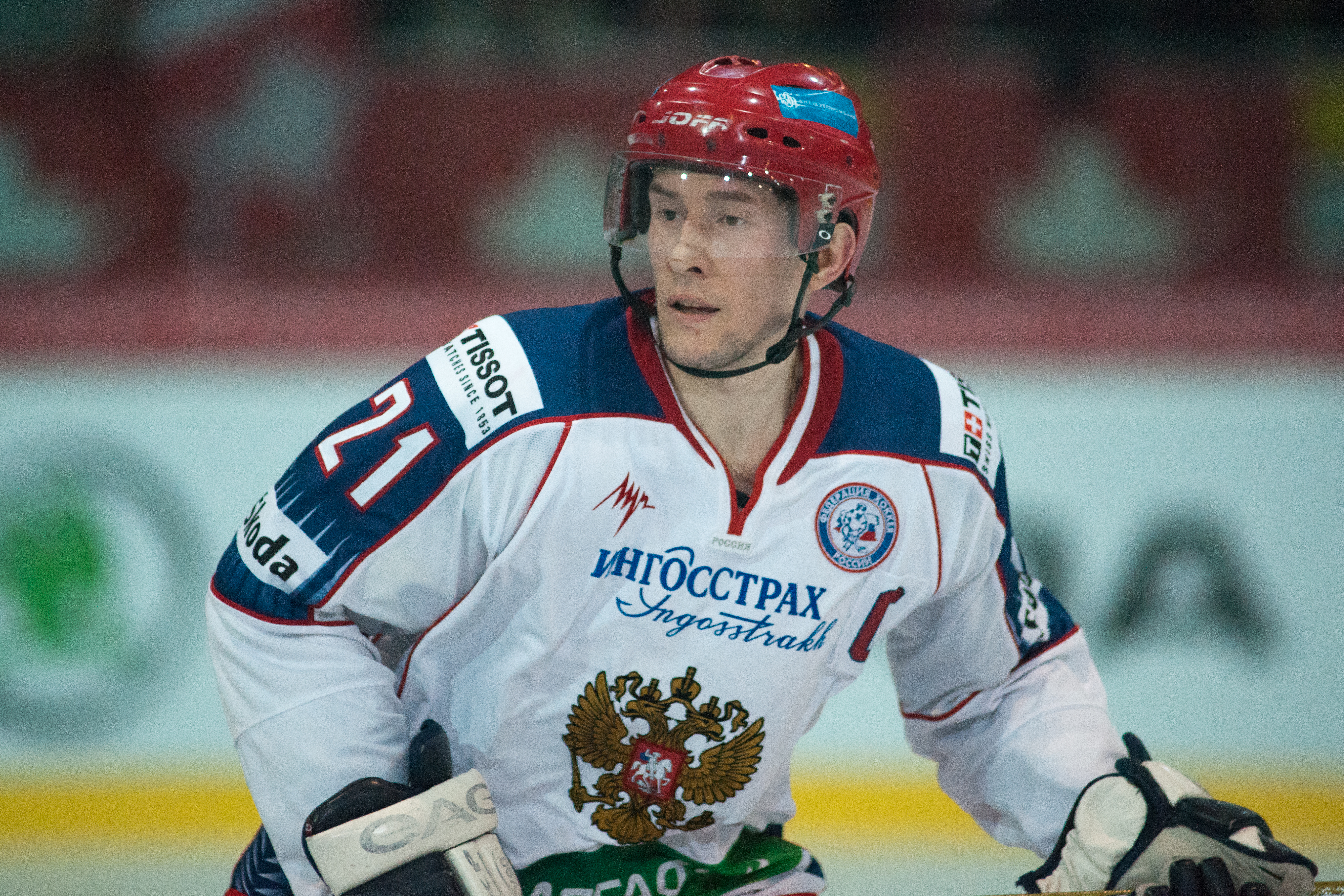 The making of this document was supported by Wikimedia CH. (Submit your project!) For all the files concerned, please see the category Supported by Wikimedia CH. Switzerland vs. Russia, 8th April 2011